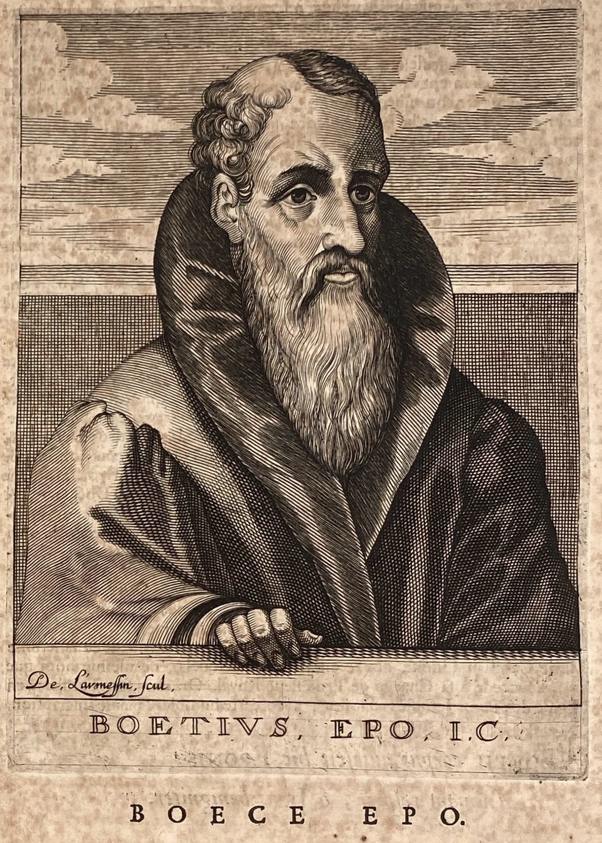 Half-length portrait of Boetius Epo, a celebrated lawyer, engraved on a copperplate by Nicolas de Larmessin; from the book Académie Des Sciences Et Des Arts by Isaac Bullart, published in Amsterdam by Elzevier in 1682.